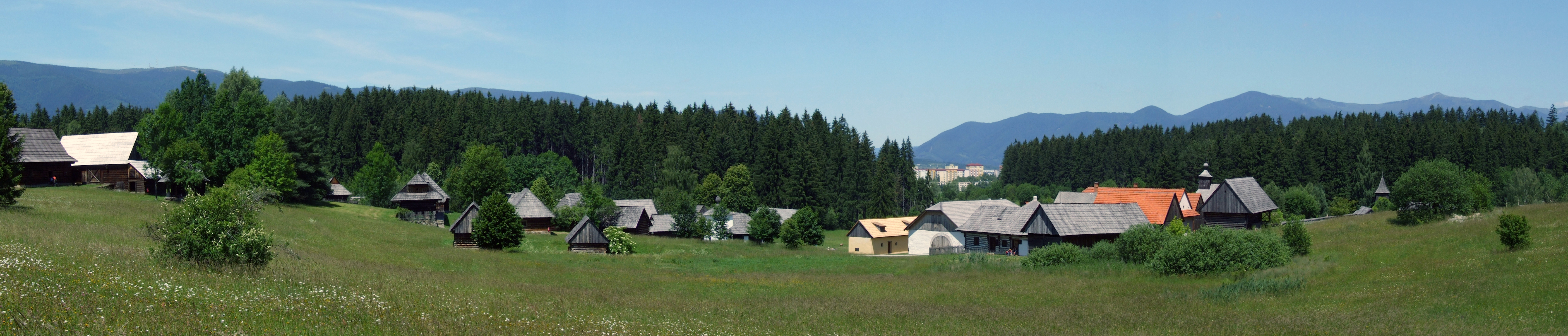 Open air museum Múzeum slovenskej dediny - Martin, Slovakia.